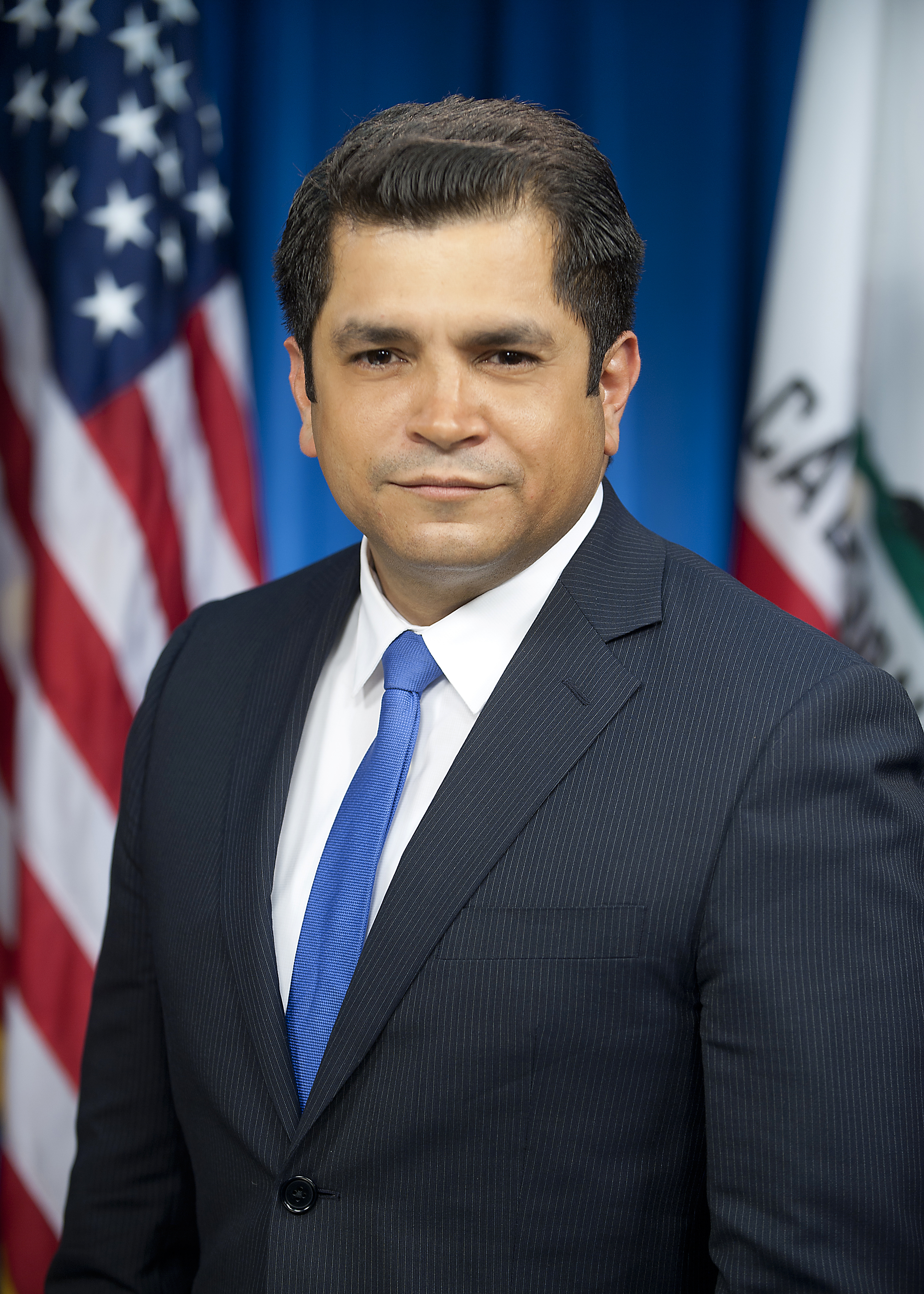 Assemblymember Jimmy Gomez